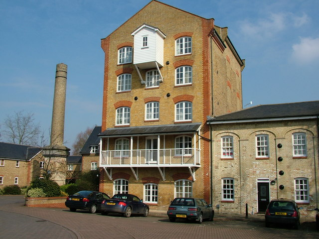 Sele Mill Hertford. Once a Paper Mill now converted into private apartments